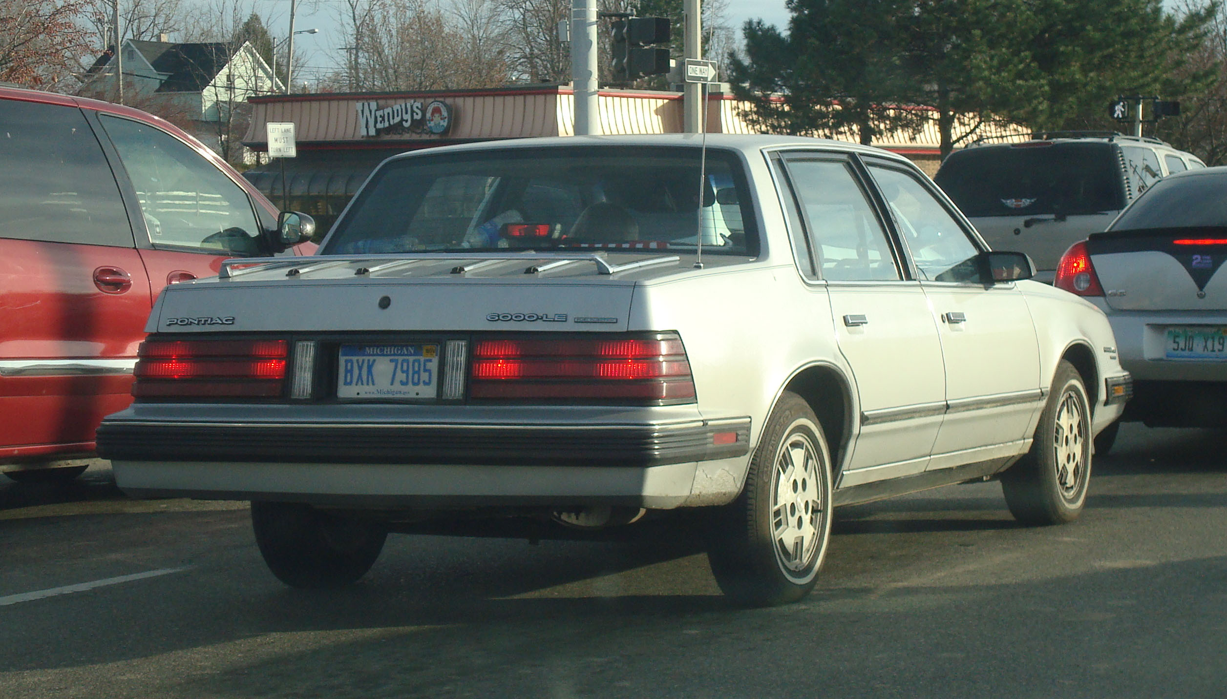 1986 Pontiac 6000 LE 4-door sedan photographed in Lansing, Michigan.